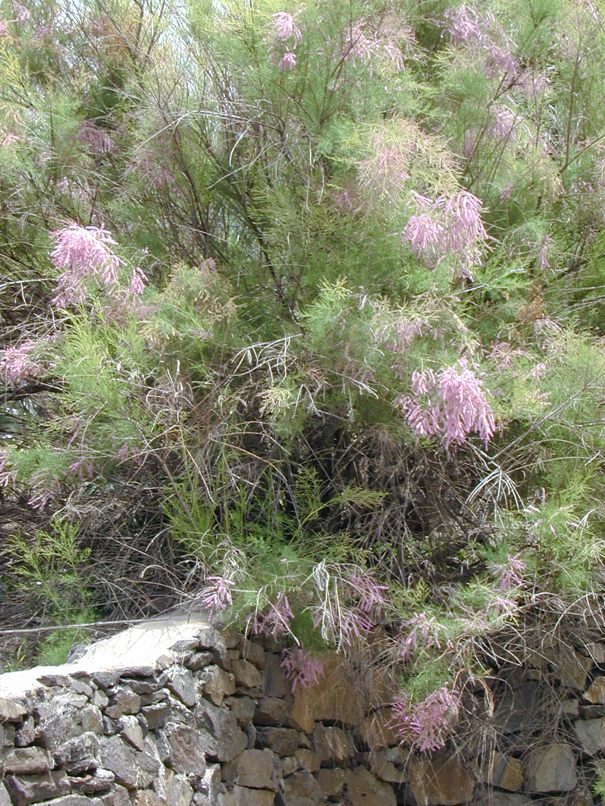 Tamarix aphylla (flowering habit). Location: Maui, Kula